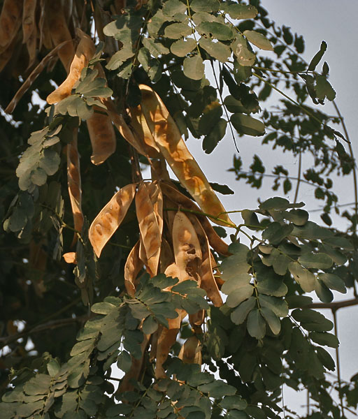 Siris Albizia lebbeck at Hodal in Faridabad District of Haryana, India.